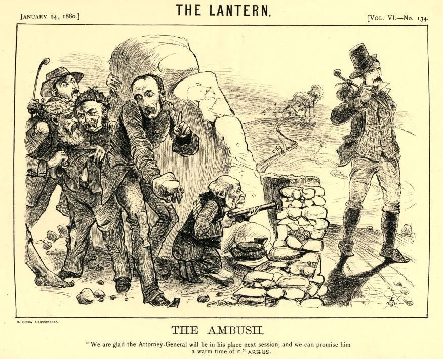 Cartoon by reactionary Lantern Newspaper. Showing Attorney General Thomas Upington under attack by liberal leaders Saul Solomon (kneeling) John X Merriman (with stone) among others. Jan 1880.